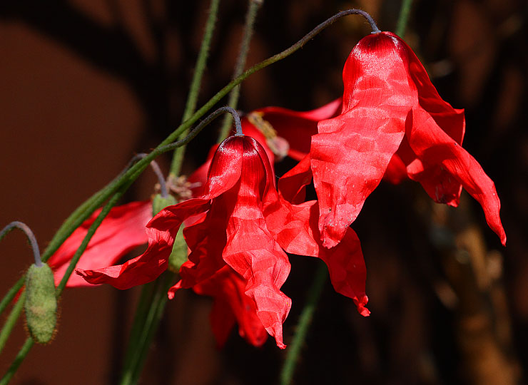 A beautiful Himalayan Poppy that bucks the trend and is red rather than blue. The flowers unfurl like red handkerchiefs and look like Tibetan prayer flags blowing in the breeze